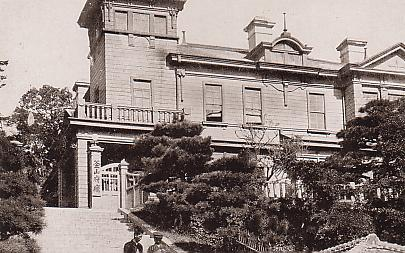 Fuzan(Pusan) City Hall